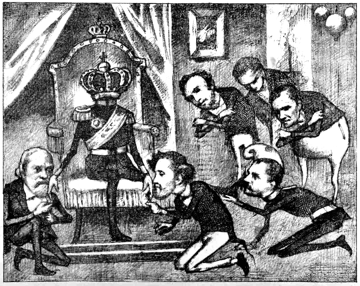 Part 2 of a two-part panel in Ciulinul, the conservative Romanian magazine. Satirical etching showing politicians who had taken part in the August 1870 liberal conspiracy known as "Republic of Ploiești" groveling before King Carol I (whose face is replaced by a crown). Figures depicted include Alexandru Candiano-Popescu, the chief conspirator, here wearing the phrygian cap; C. A. Rosetti; Gheorghe Chițu; and Ion Brătianu. See also Part 1.